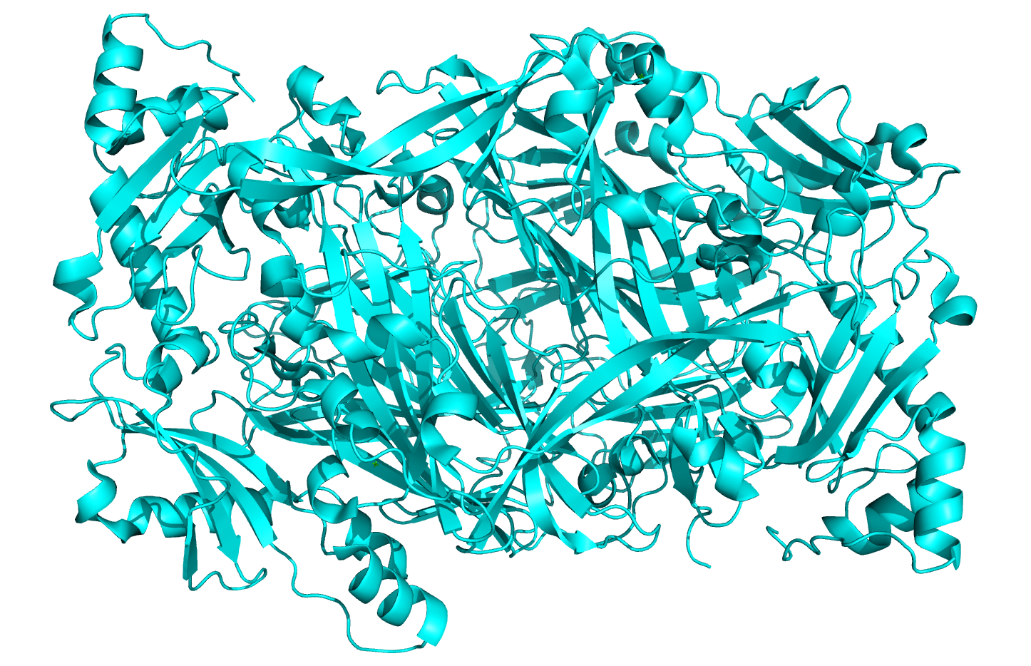 Crystal structure of human diamine oxidase from the AOC1 gene. Image rendered by James Lee in Pymol